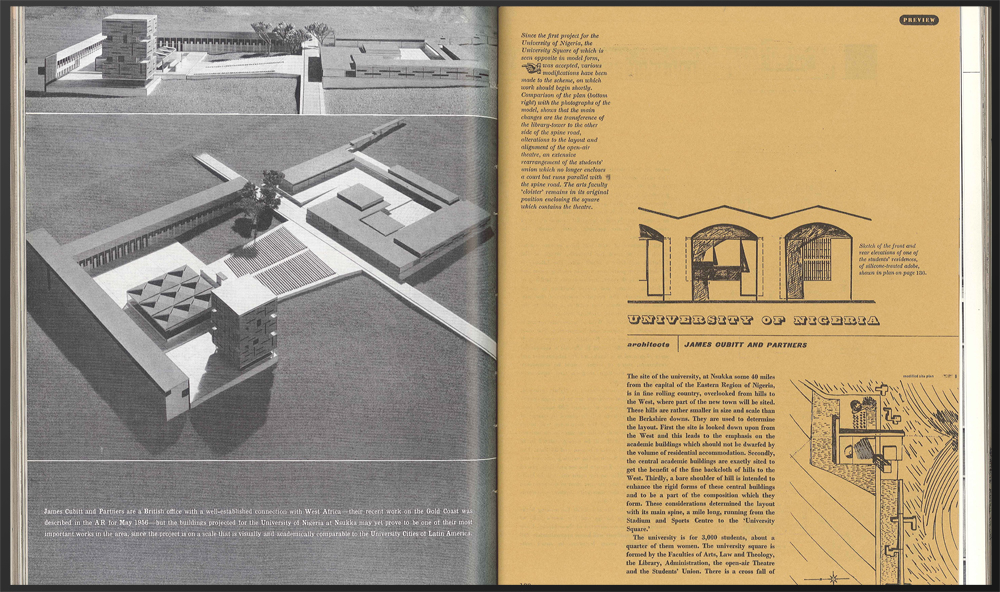 James Cubitt and Partners 1959 proposal for The University of Nigeria as featured in The Architectural Review